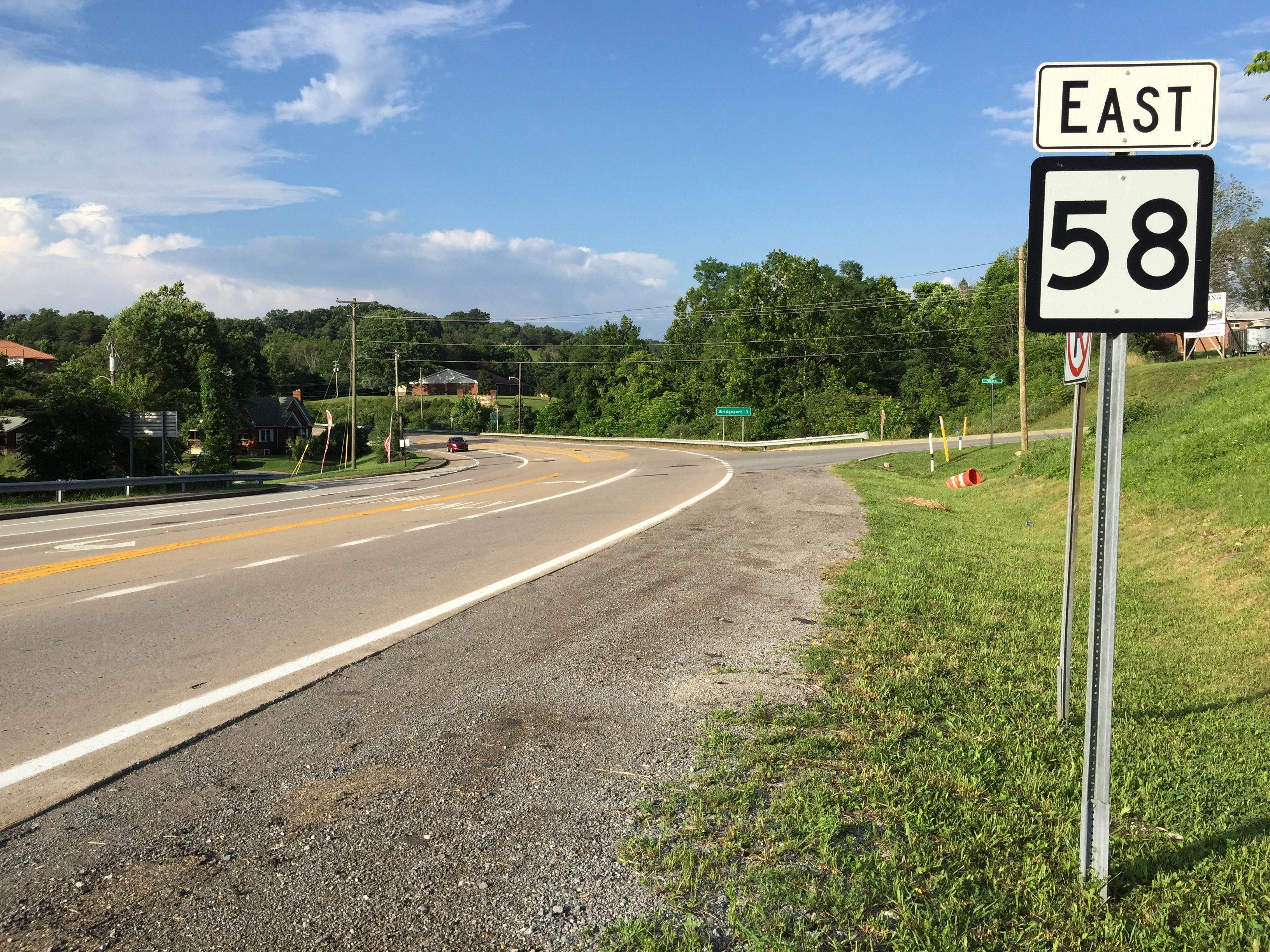 View east along West Virginia State Route 58 at Interstate 79 (Jennings Randolph Highway) in Anmoore, Harrison County, West Virginia